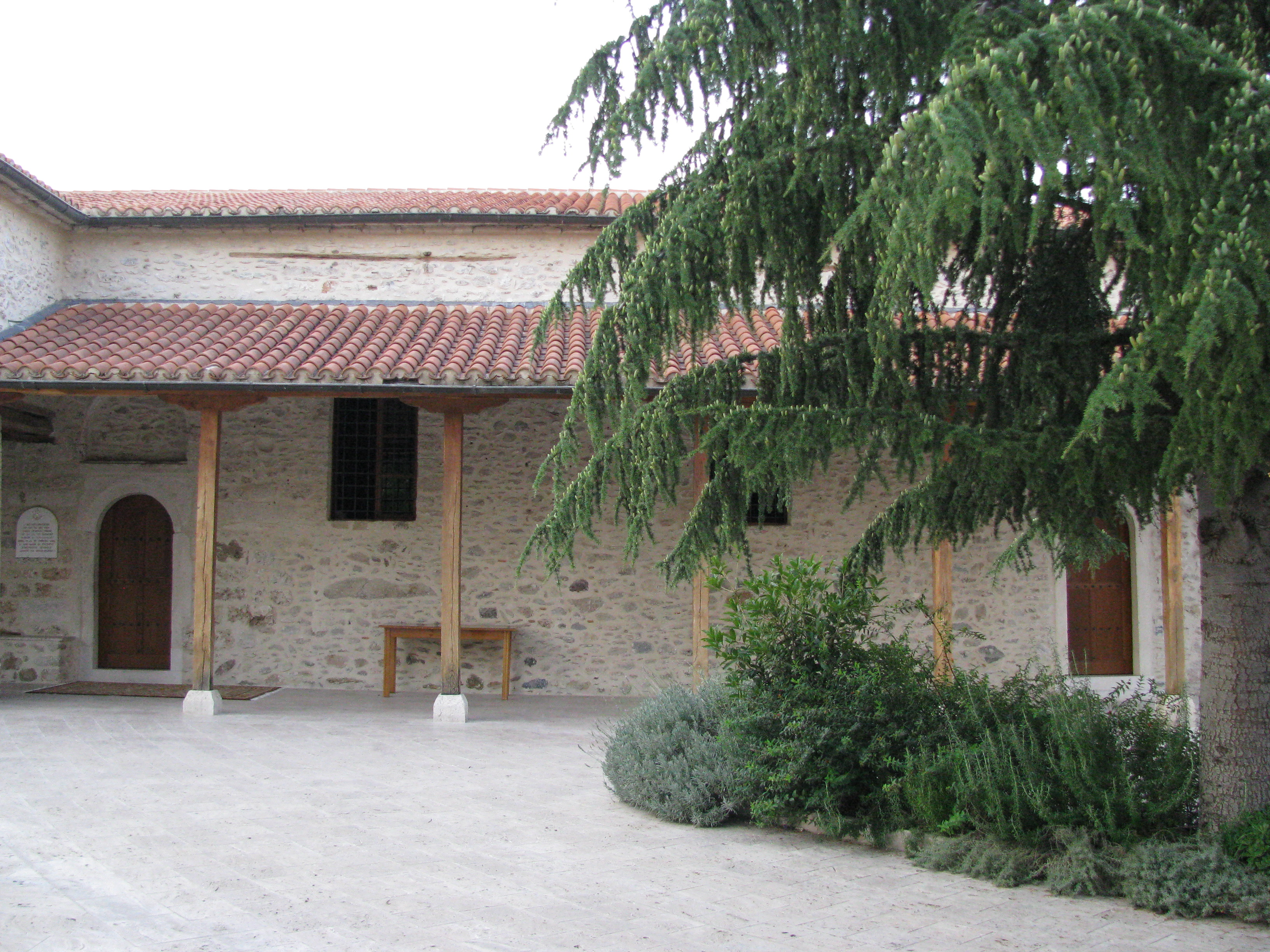 Μοναστήρι στην στη Γουμένισσα